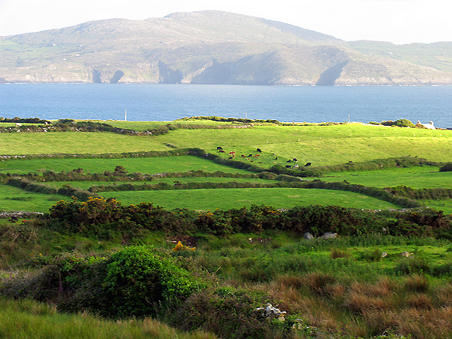 Pasture near Ballyieragh. This grid square is pastureland and sea.